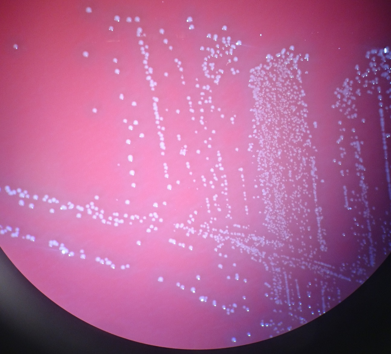 Aerococcus urinae on blood agar, showing alpha hemolytic colonies. More details in source article: Mattila J, Häggström M (2015). "Images of Aerococcus urinae". WikiJournal of Medicine 2 (1).